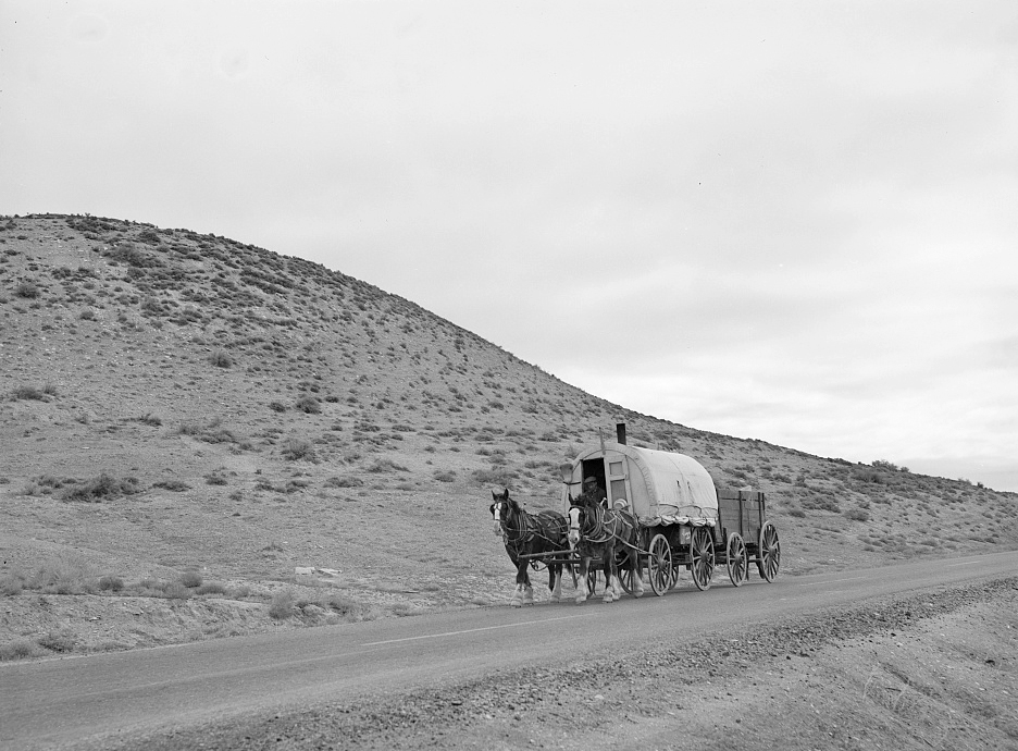 Sheepherder's wagon on U.S. 30. Sweetwater County, Wyoming, 1940